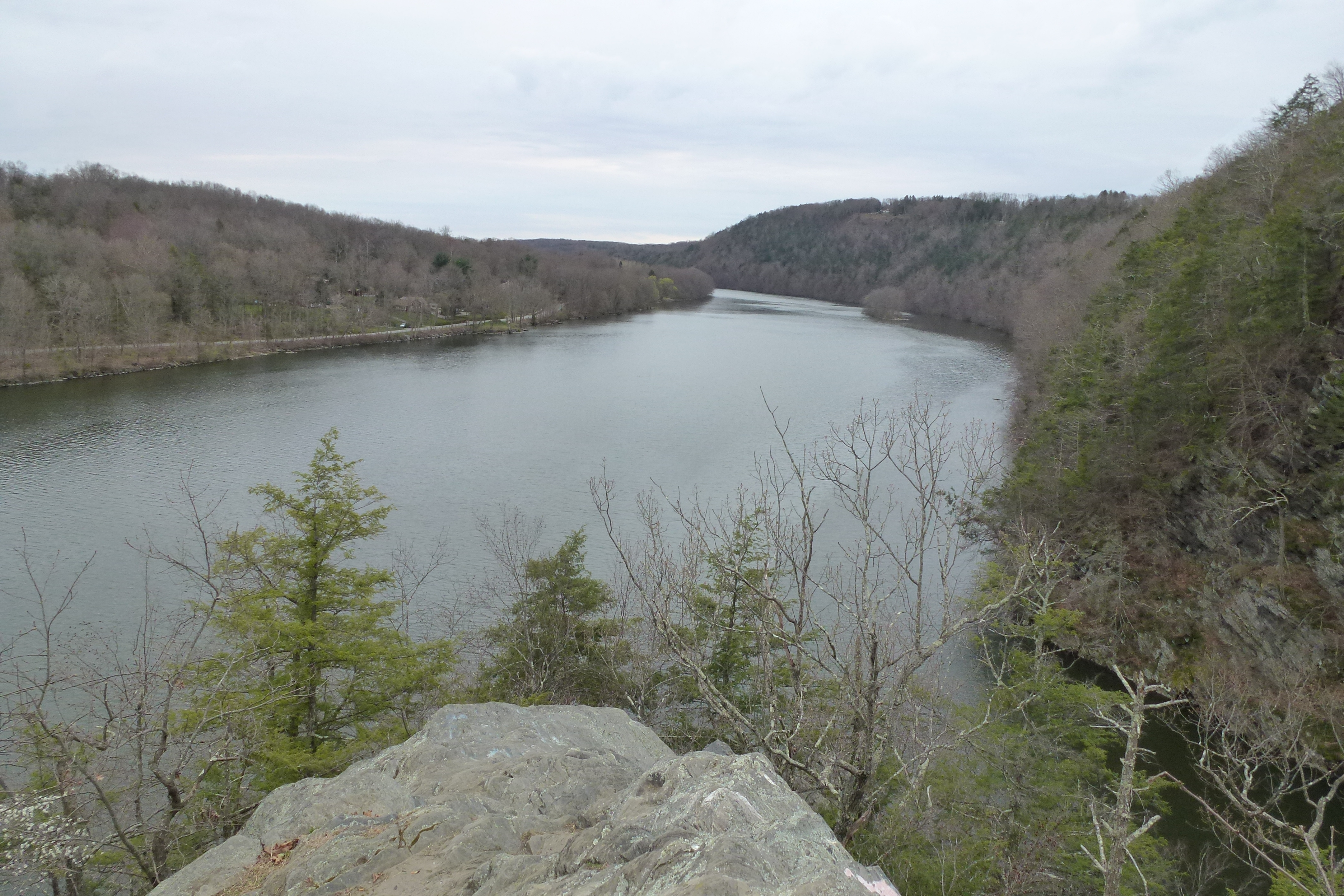 South view of the Housatonic River from the Lovers Leap rock promontory in Leap State Park